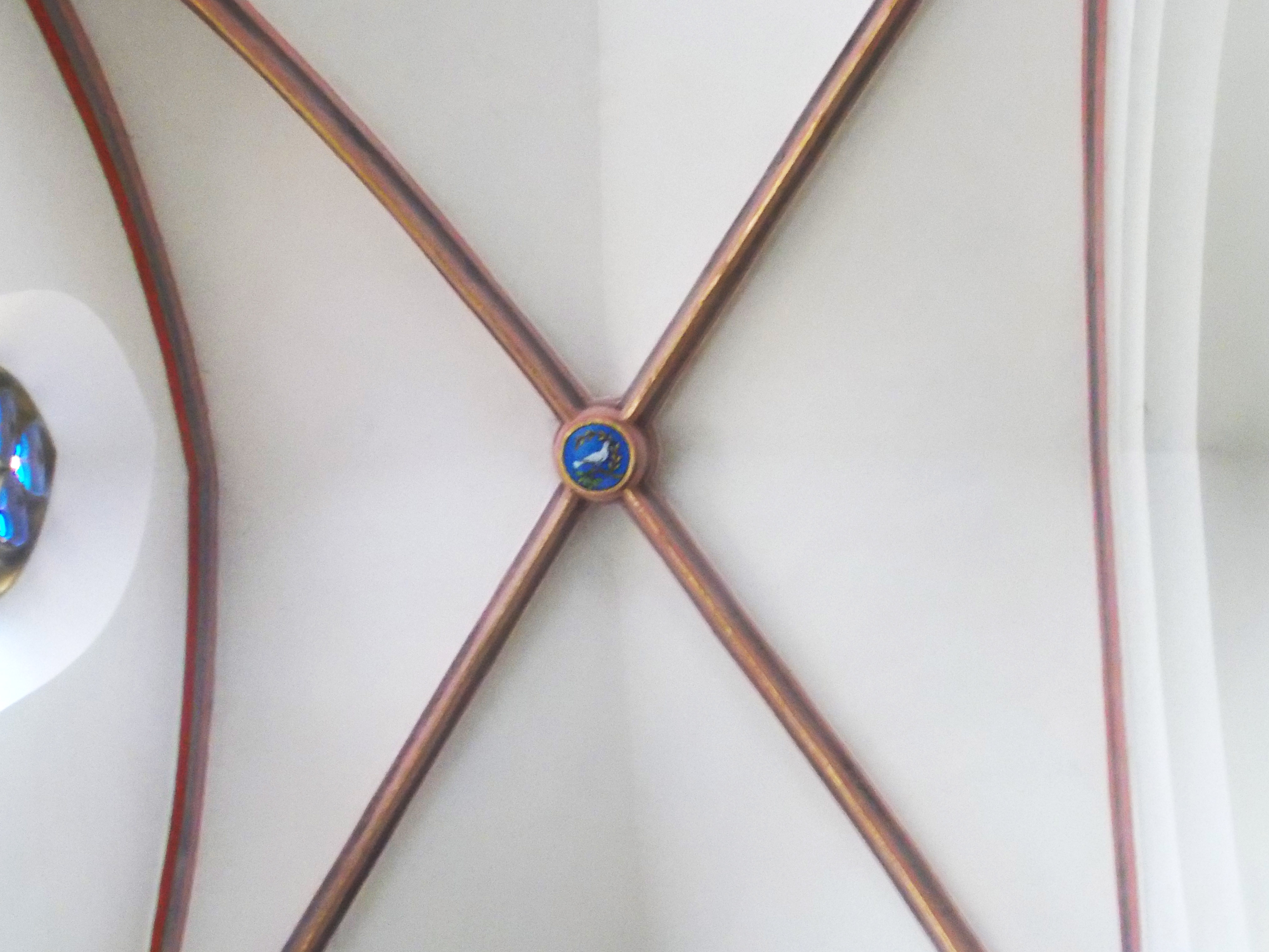 keystone Cathedral of the Holly Spirit Hradec Králové